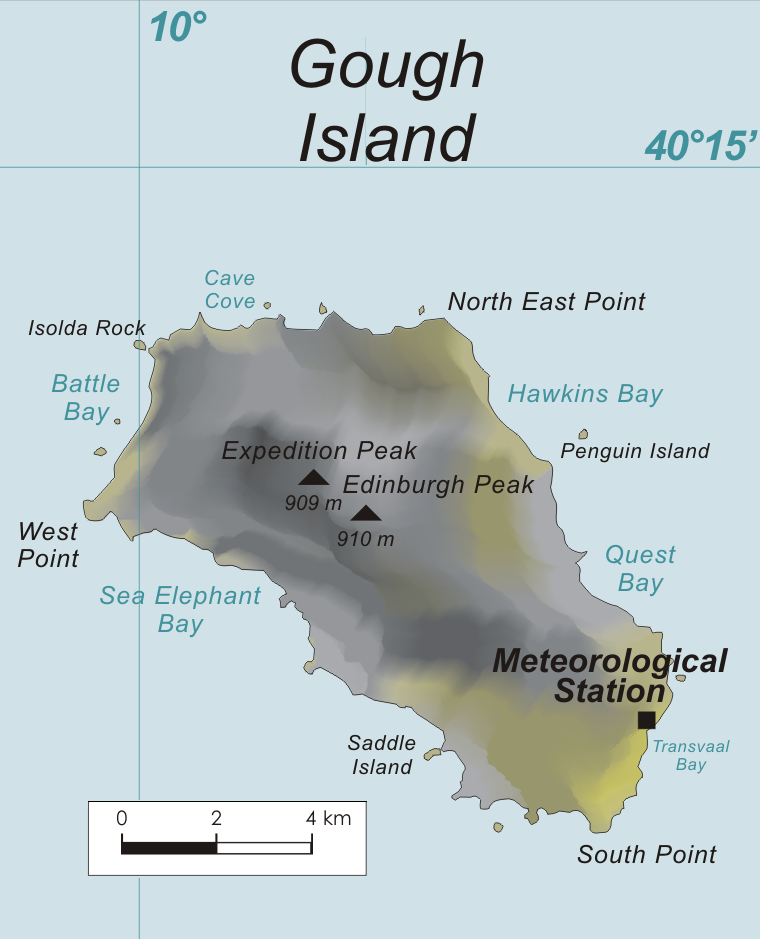 Map of Gough Island, fragment of Image:Tristan Map.png drawn by varp.